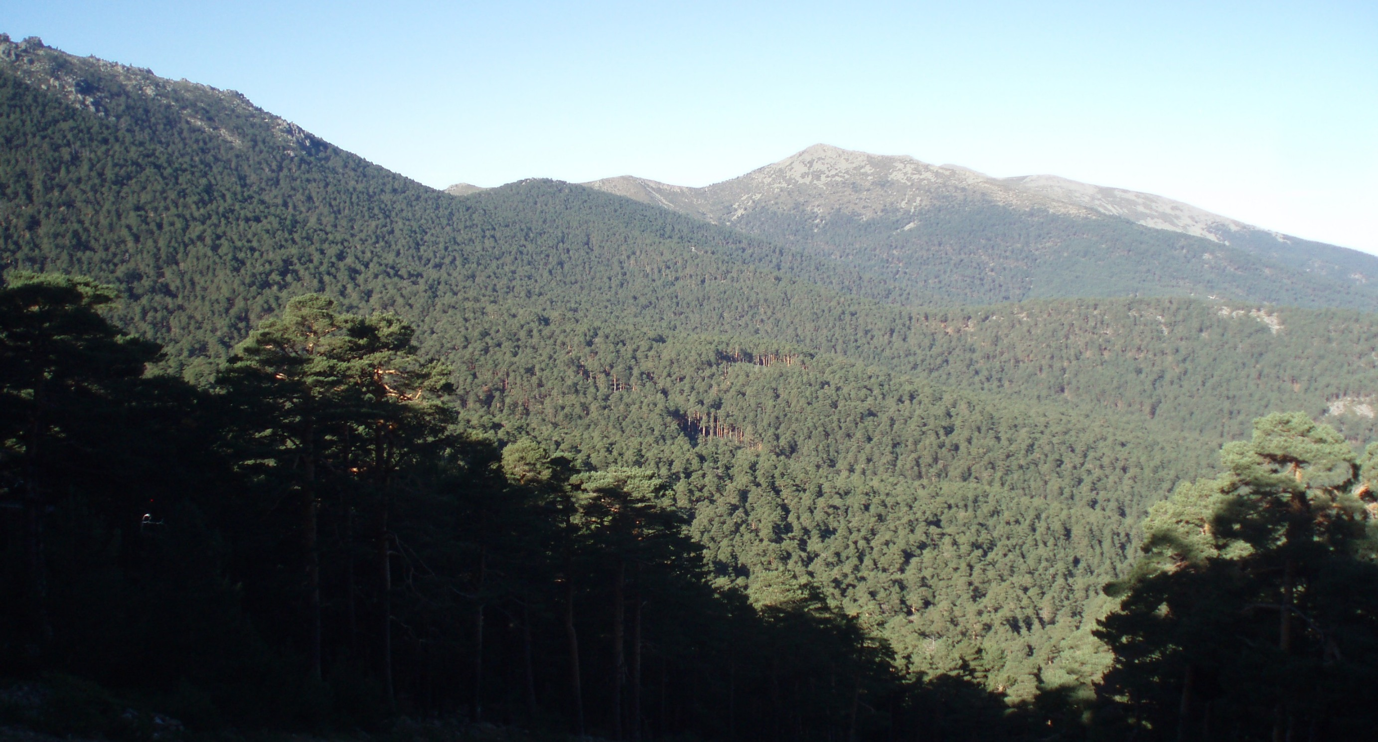 Siete Picos and Montón de Trigo mountains (Guadarrama mountain range, Central Spain).